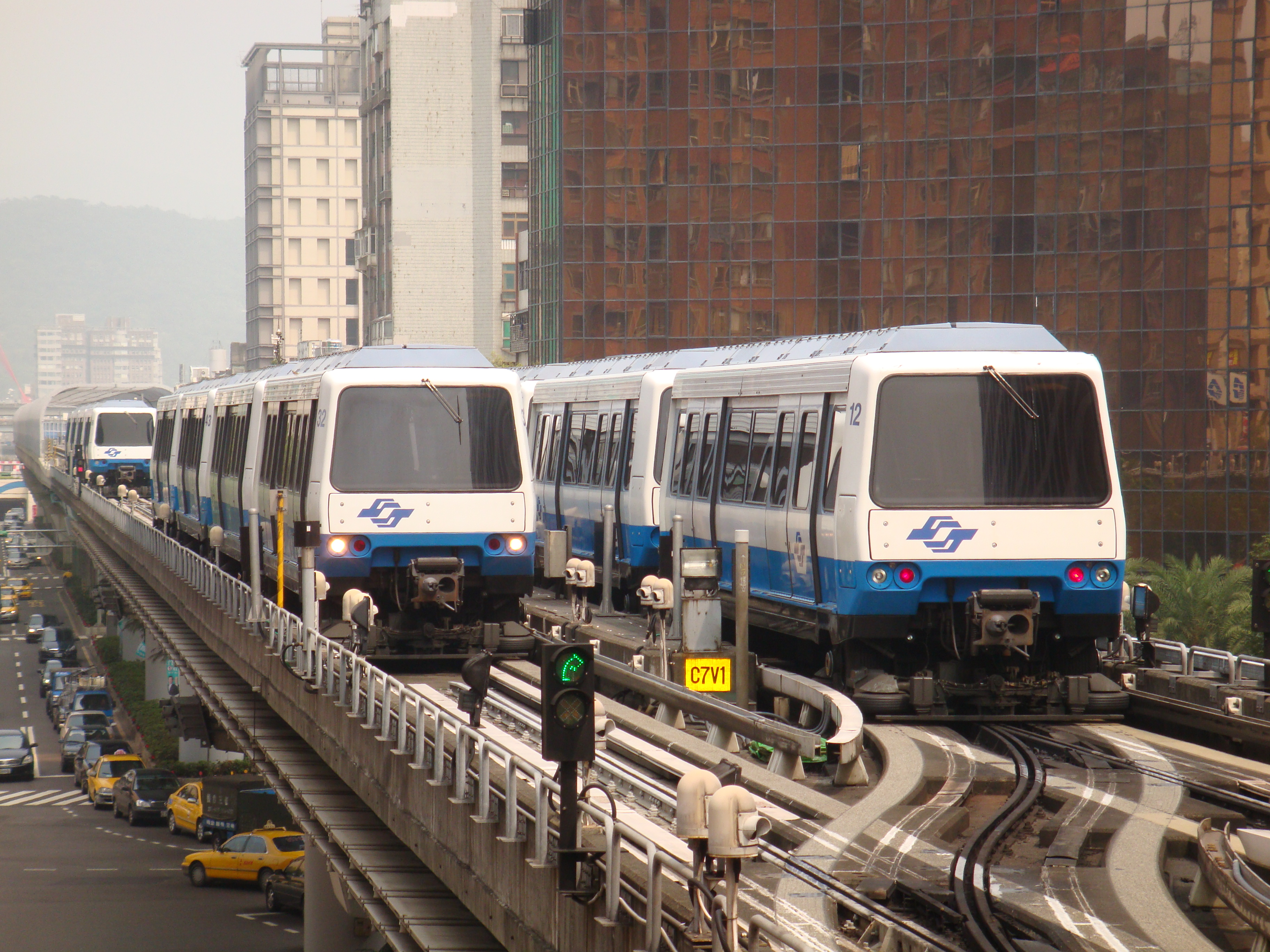 VAL256 trains at reverse siding at Zhongshan Junior High School station, Muzha Line, as of 2008. Bân-lâm-gú: 2008-nî, Ba̍k-sa-suànn ê Tiong Ūn-liōng Tshia(VAL256) tī Tiong-san-kok-tiong-tsām ê kái tshia-tō. 2008年，木柵線的中運量車(VAL256)佇中山國中站的改車道。